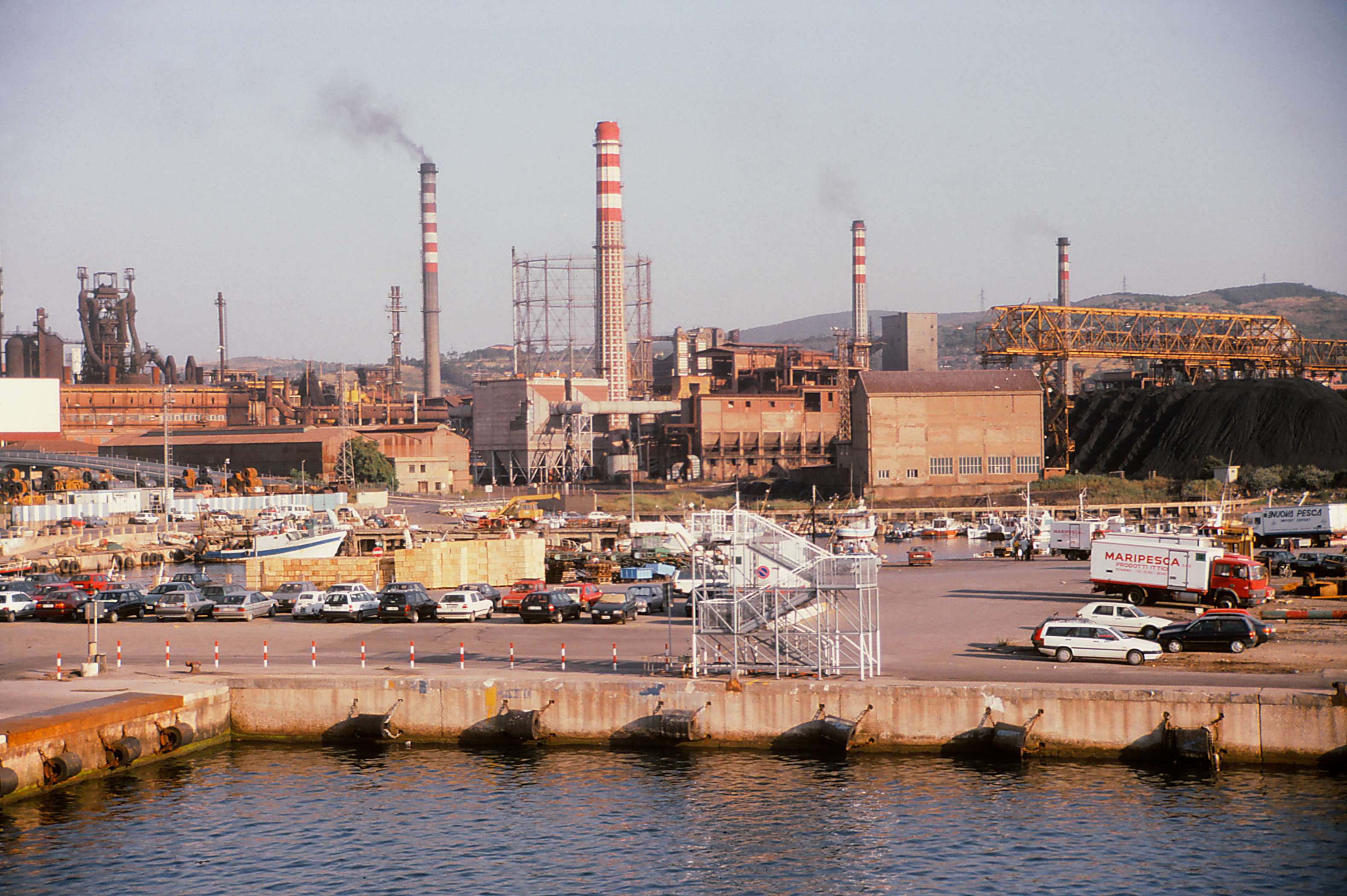 Piombino is a Tuscan port, the primary gateway the the Island of Elba; the ferry crossing is 45-60 minutes depending on whether the island destination is Rio Marina or Portoferraio. Scanned slide.